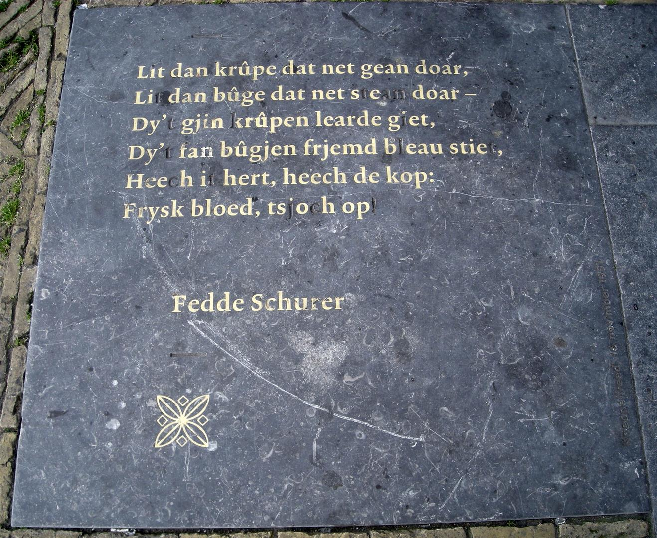 Memorial stone of Kneppelfreed with a poem by Fedde Schurer. Loose English translation: Let then crawl who did not dare go / Let then bend who did not dare stand / Who did not learn to crawl, goes / Who refuses to bend, stands / High the heart, high the head / Frisian blood, rise up!